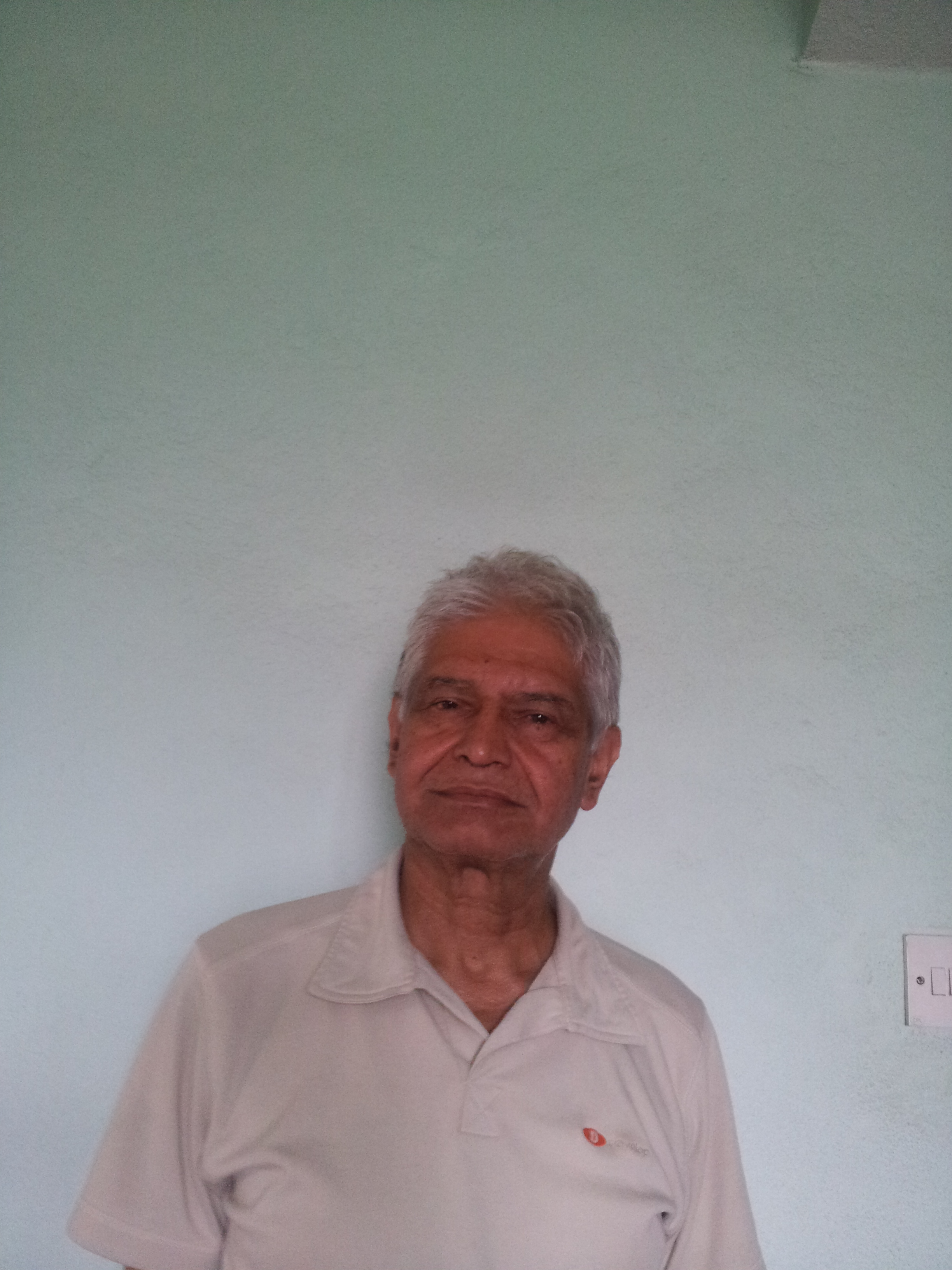 Chetonath Gautam at home.